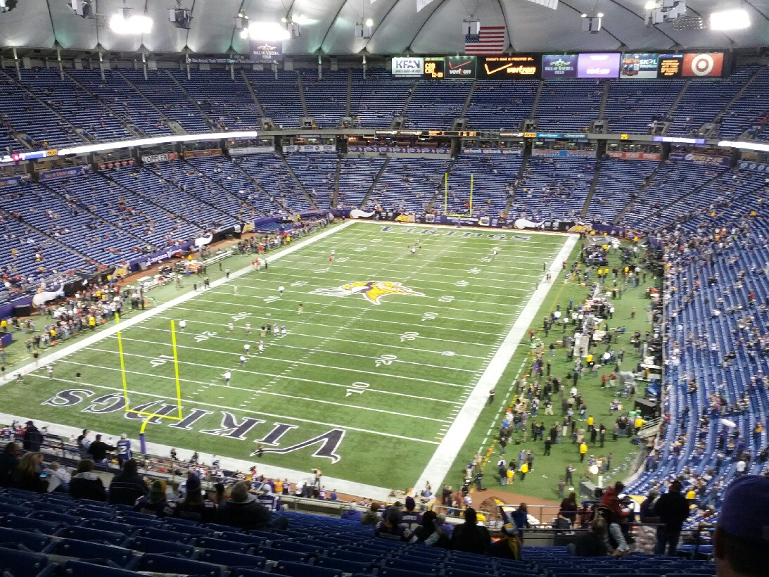 Vikings Vs Buccaneers - October 25, 2012 - Picture 1 of 2